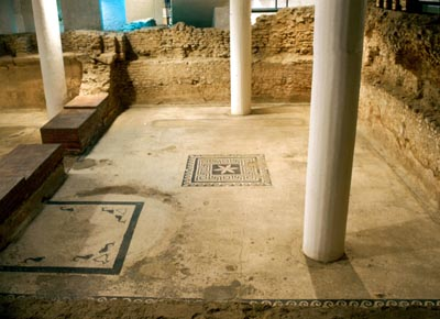 Termes a Baetulo (actual Badalona). Roman thermes in Baetulo (actually corresponding to Badalona, near Barcelona, Catalonia)